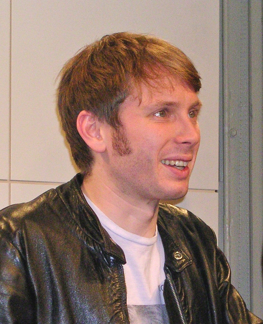 Alex Kapranos by David Shankbone